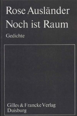 Book cover of Rose Ausländer, "Noch ist Raum" 1976